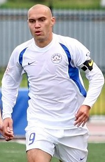 Alexei Arkhipov in action for FC Vityaz Podolsk